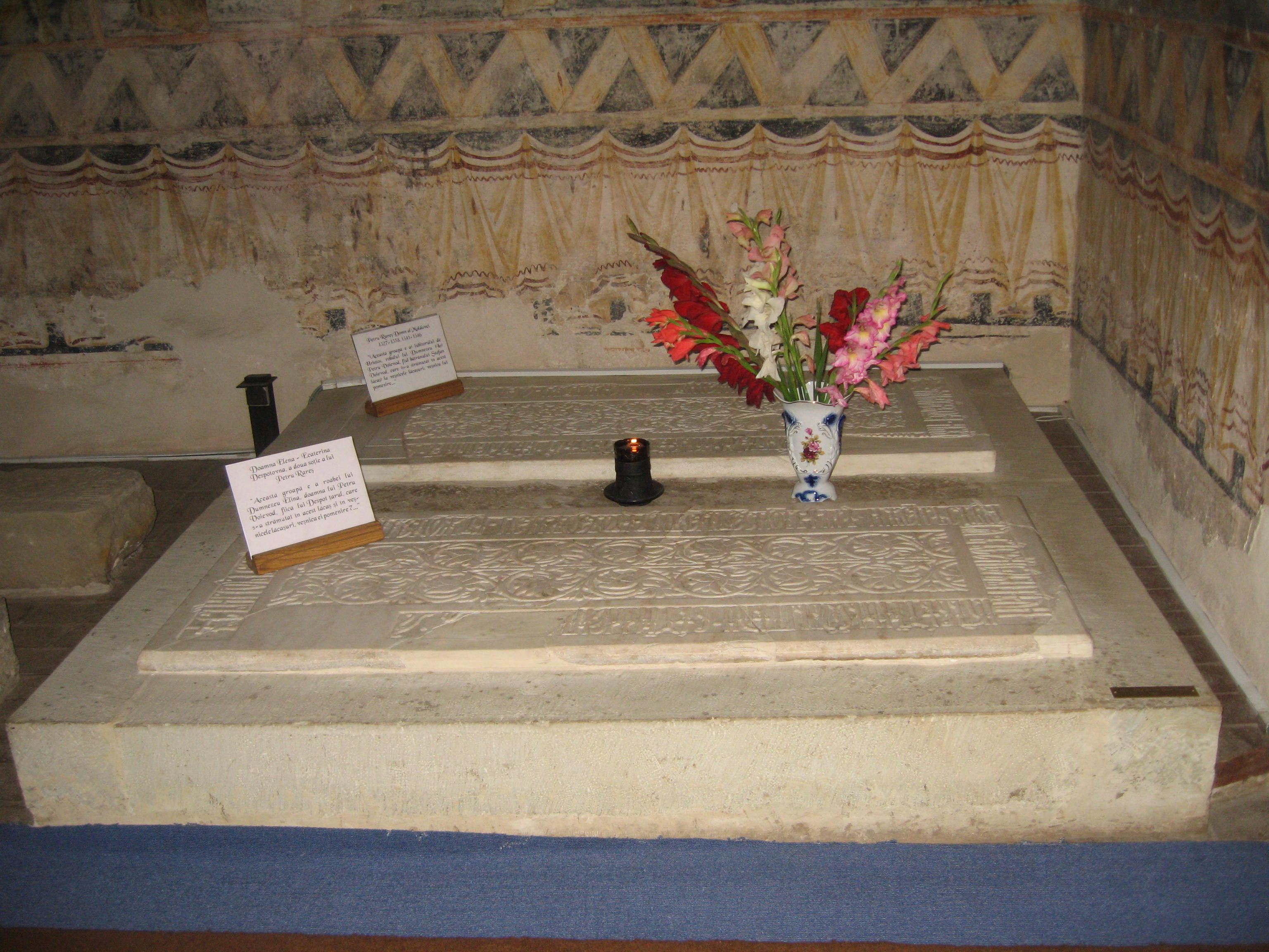 Probota Monastery